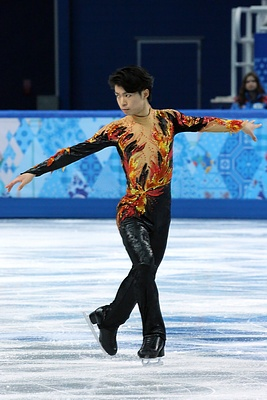 Tatsuki Machida during his free program at the 2014 Winter Olympics.